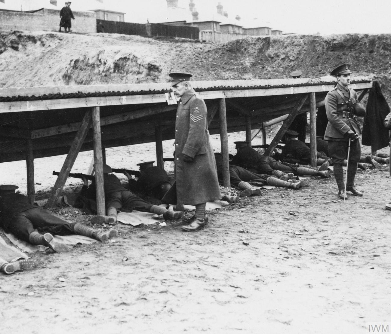 Troops of the Royal Welsh Fusiliers (Kitchener's Army) firing on the miniature range during training, Winter 1915.